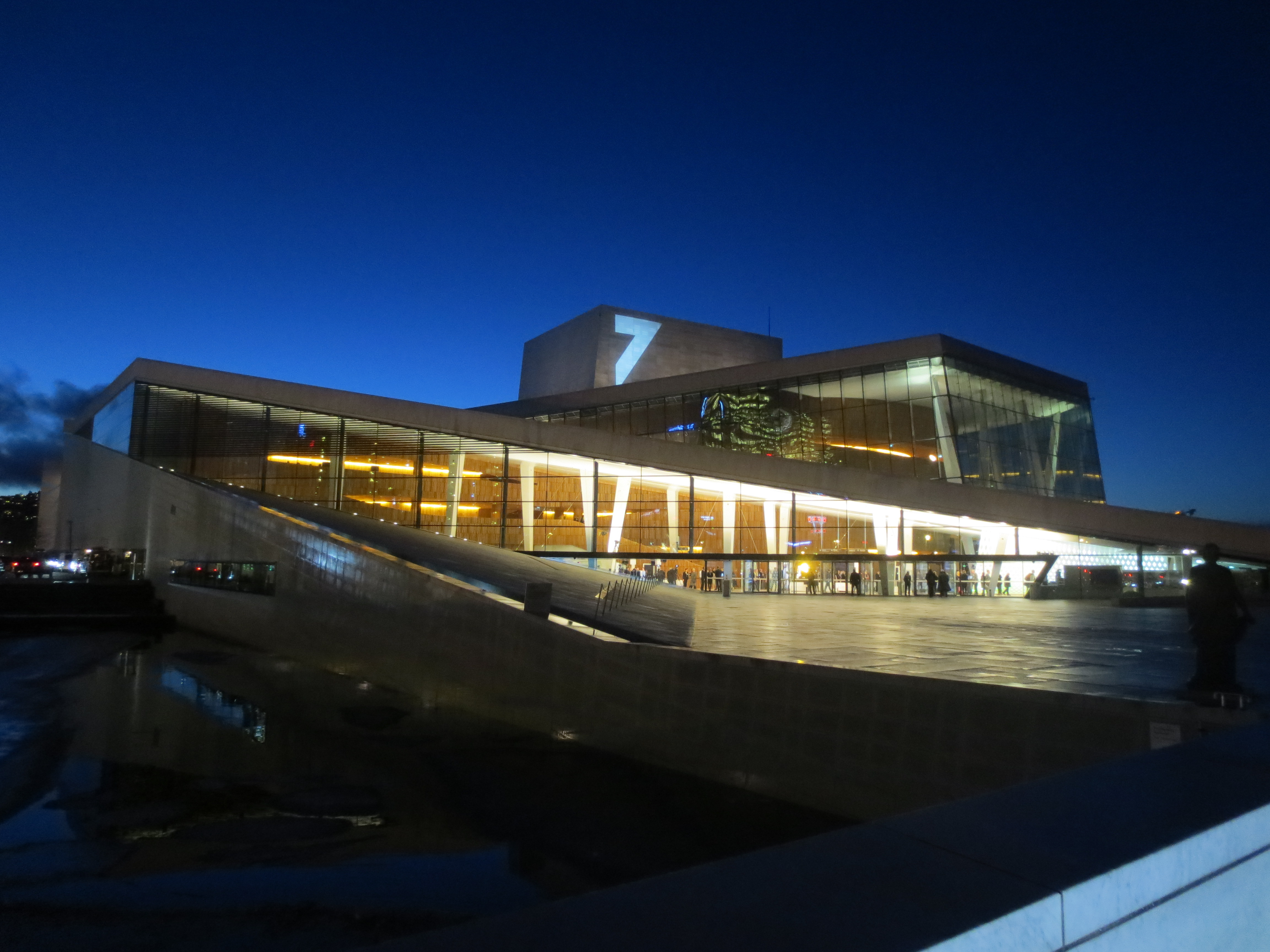 Image from the NHO annual conference in the Oslo Opera, January 2015.